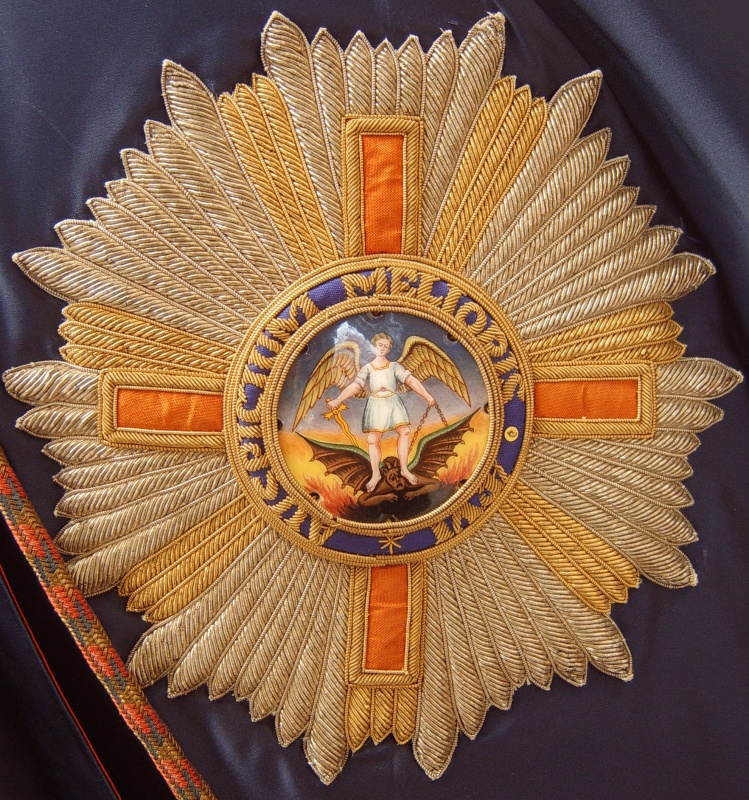 Star of a Knight or Dame Grand Cross of the Most Distinguished Order of Saint Michael and Saint George.